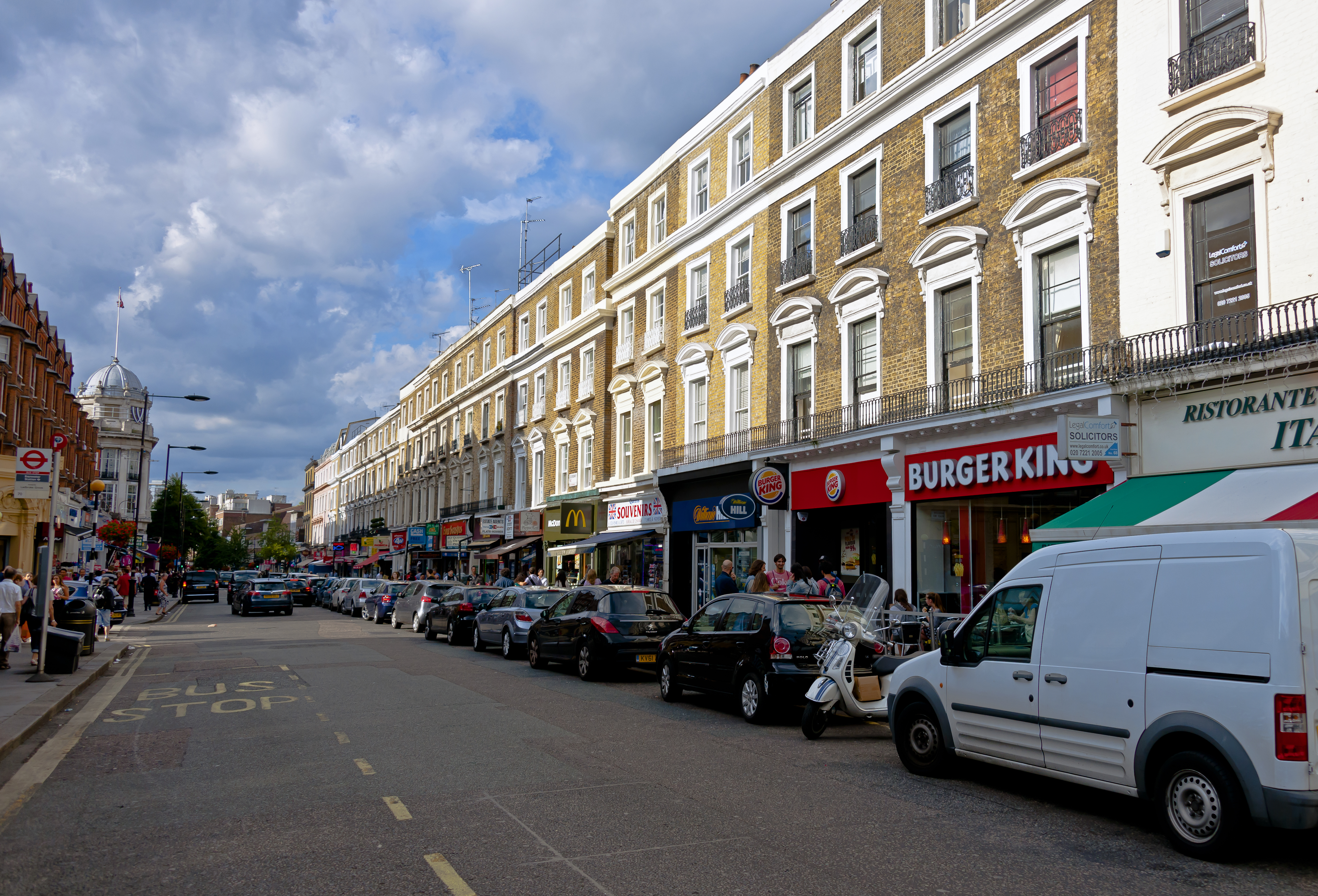 View north up Queensway, London from in front of the entrance to Bayswater tube station